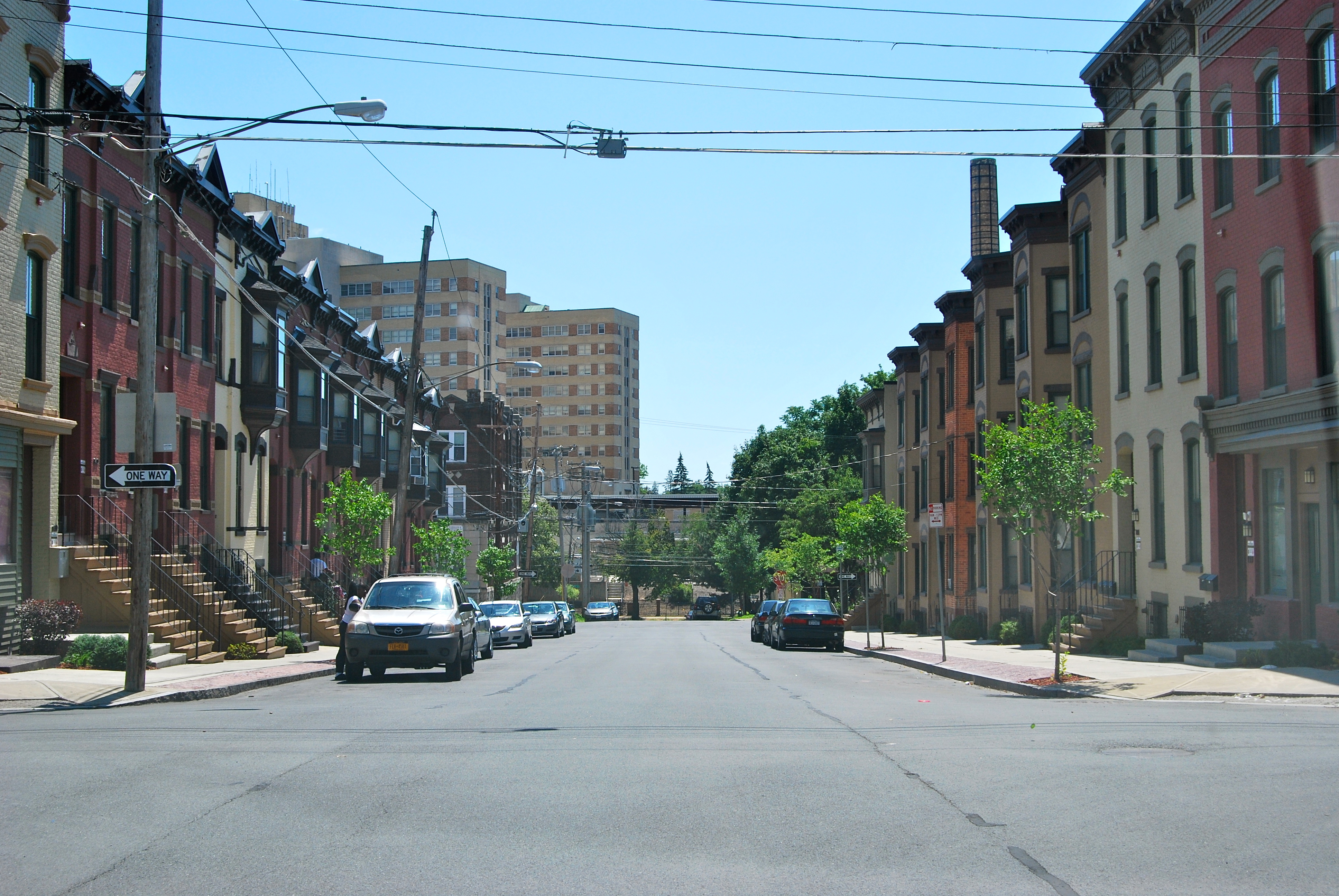 Knox Street Historic District in Albany, New York. In the background is the Samuel S. Stratton Albany Va Medical Center